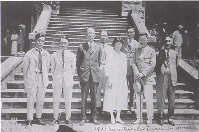 1925 July, The Pan-Pacific Conference Honolulu in Hawai